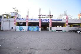 Multi Level Parking, Old Bus Stand